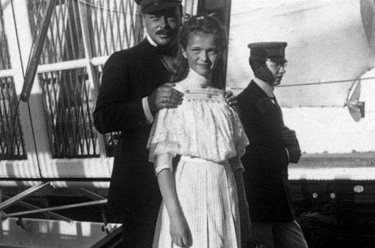 Grand Duchess Olga on board the Standart with her Uncle Ernie (Grand Duke Ernst of Hesse and by Rhine), her mother's brother